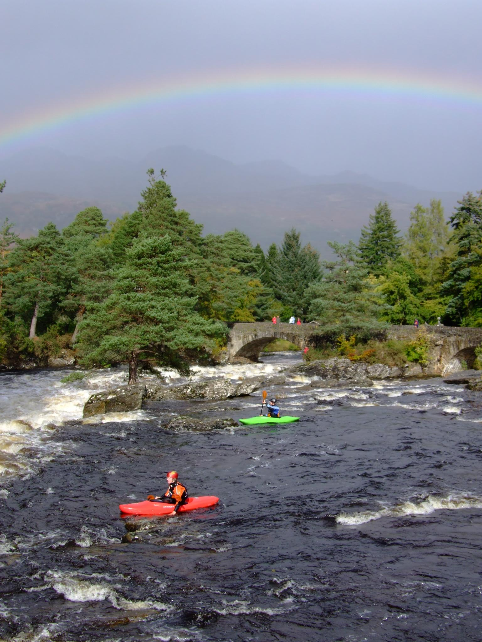 Two whitewater kayakers at the Falls of Dochart (whitewater difficulty scale: level 5 according to the flickr uploader) of the River Dochart near Killin, Scotland. original description on flickr: "Having a rest I have not come across anyone who has seen canoes attempting this stretch before"